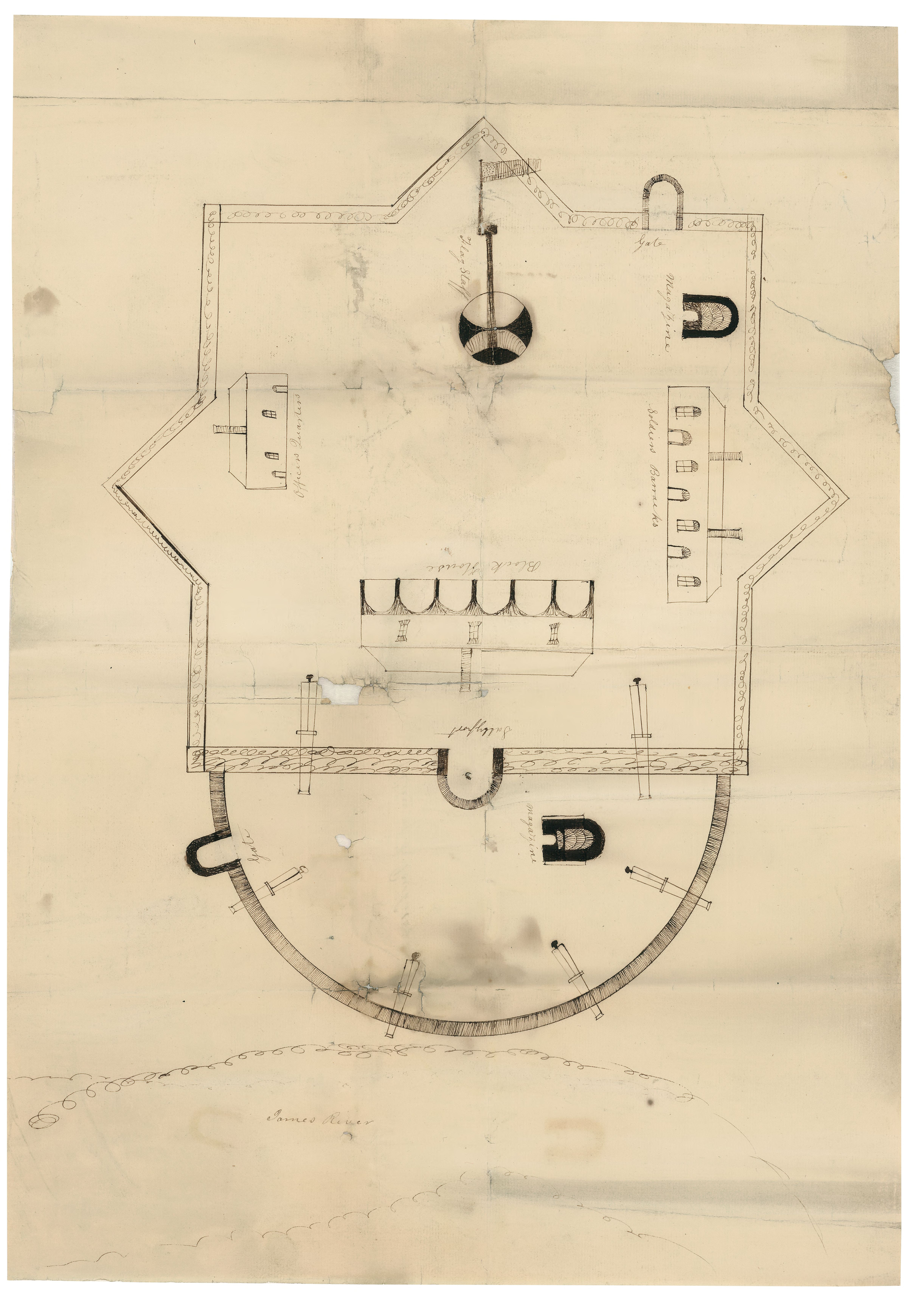 Original map located in House of Delegates, Office of the Speaker, Executive Communications, Oversized, Box 9, Folder 14. Although included in a report of 1821, this plan represents the fort as it looked in 1819, before the cannon was removed. This item is in the Map Collection of the Library of Virginia; please contact the Library's Archives Research Services department for more information. Available also through the Library of Congress web site as raster image. C. 1, Sept. 1969, photocopy, LVA; c. 2, 2004, color ink jet, LVA (original in Archives); March 2004, Map Cataloging Team. Civil War project no.: lva00190. Conservation: Etherington Conservation Center, Jan. 2004. Copy 1: Map accession no. 2911 (1969), (negative photostat, LVA, Sept. 1969, aprox. 43 x 60 cm.) Digital image available: 22 x 15.7 in. Previously filed as: 755.61 M6 1861-1865 1819 (1).